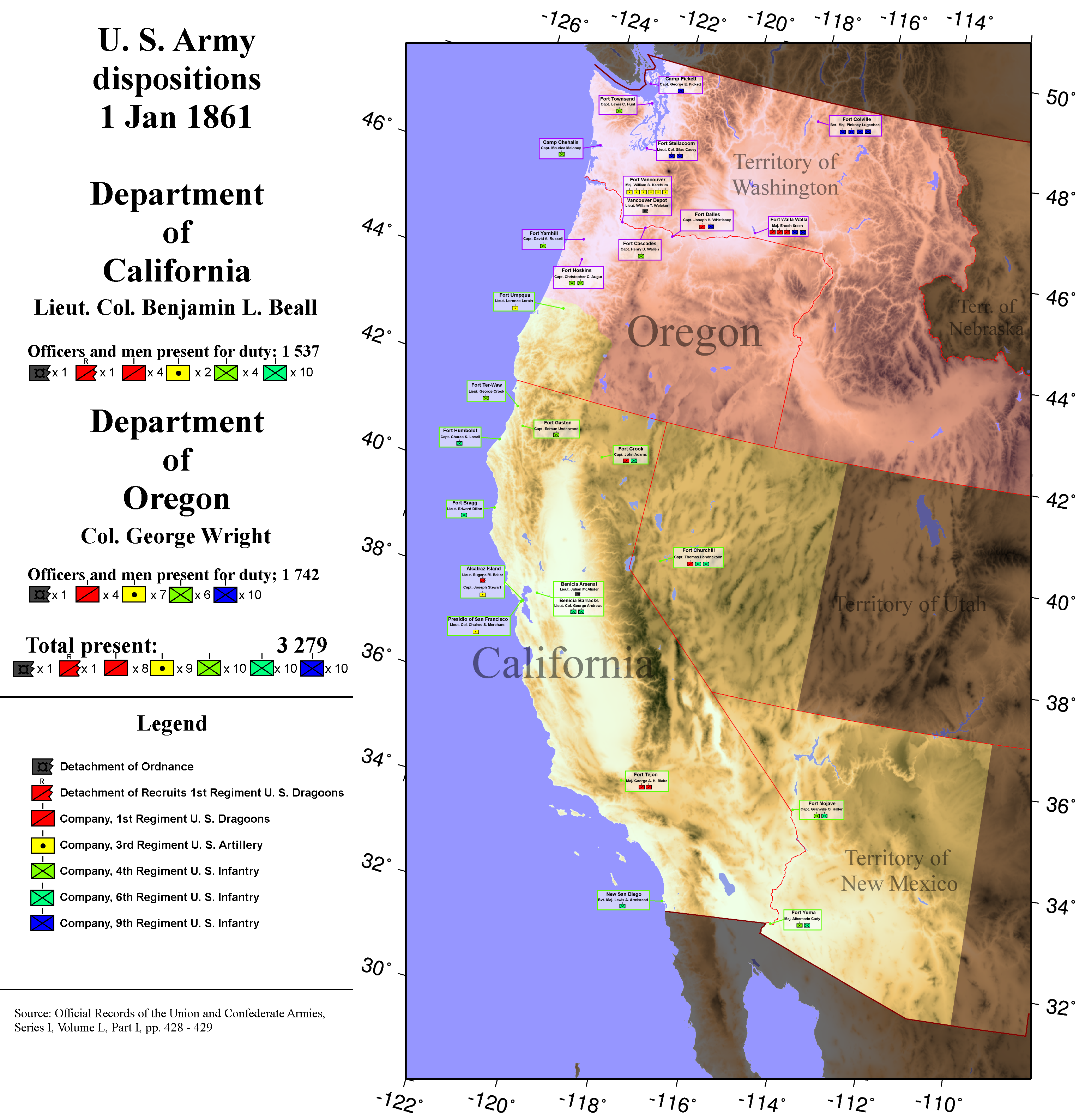 Distribution of U. S. Army troops 1 January 1861, at the eve of the American Civil War in the Military Departments of California and Oregon, roughly corresponding to the modern states of California, Arizona, Nevada, Oregon, Washington and Idaho. Based on table in Offical Records of the Union and Confederate Armies, Series I, Volume L, Part I, pp. 428 - 429